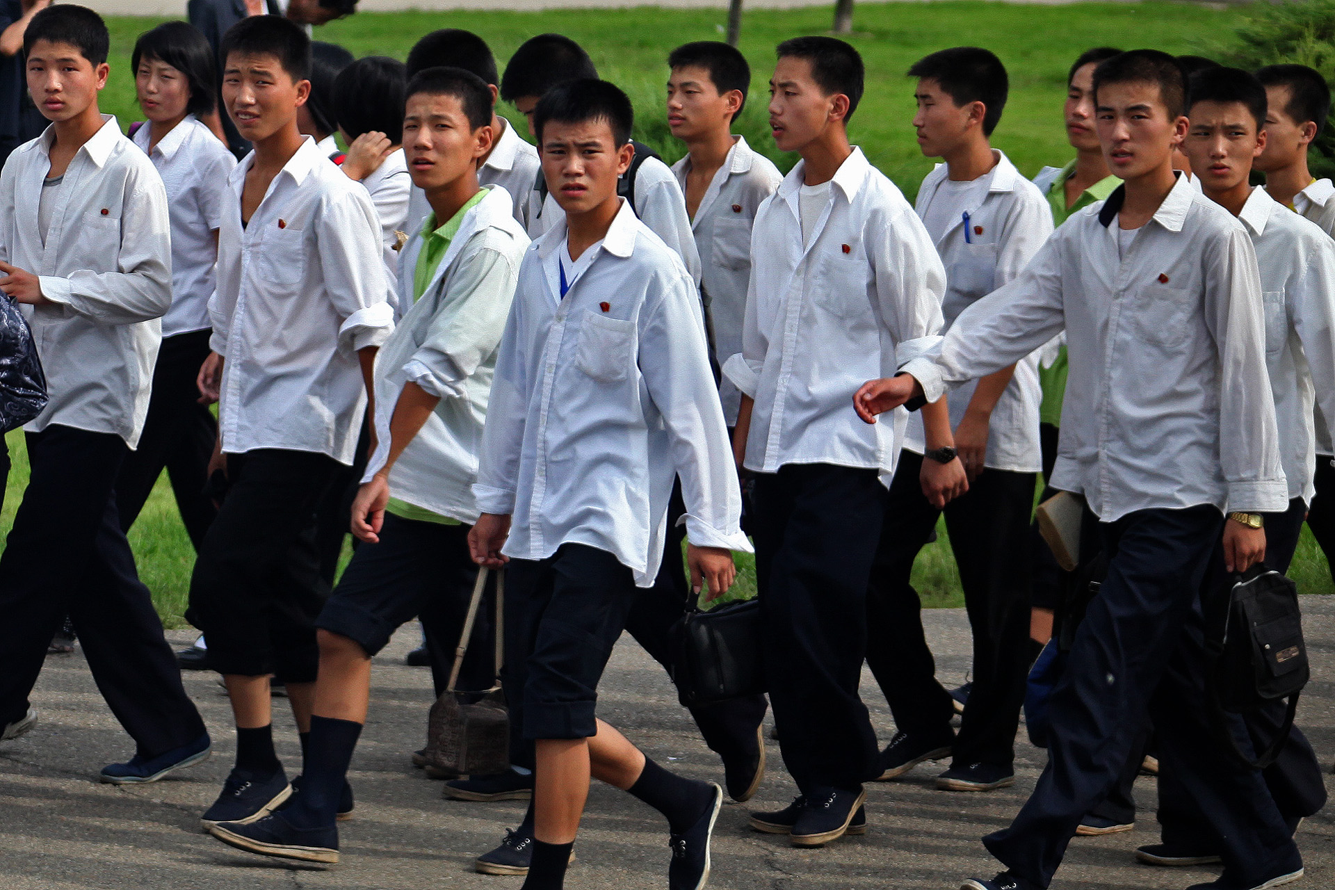 Everyone have to/want/must (?) wear Kim Il Sung badges pinned to their shirts. There are more than 20 diverse kinds of Kim Il-sung badges manufactured and worn by the people according to their class.